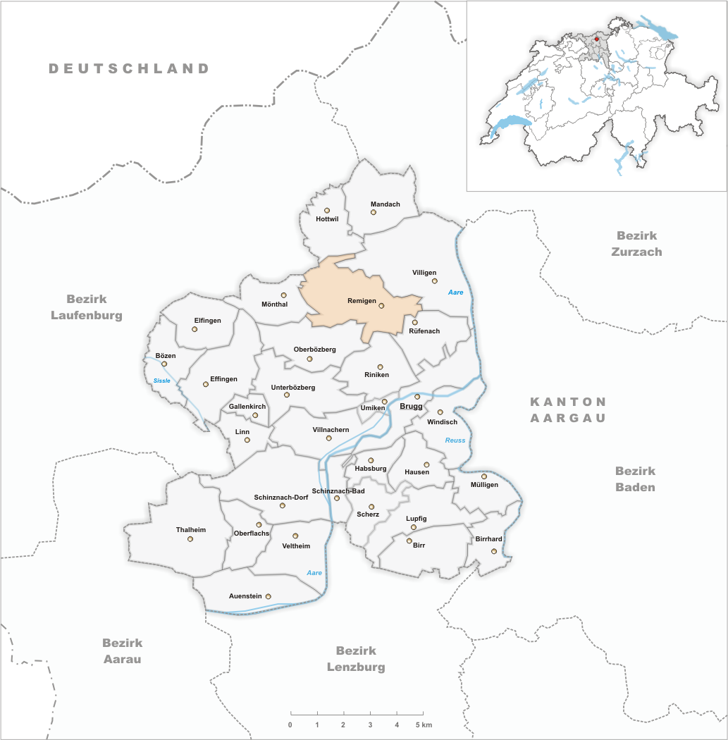 Municipality Remigen